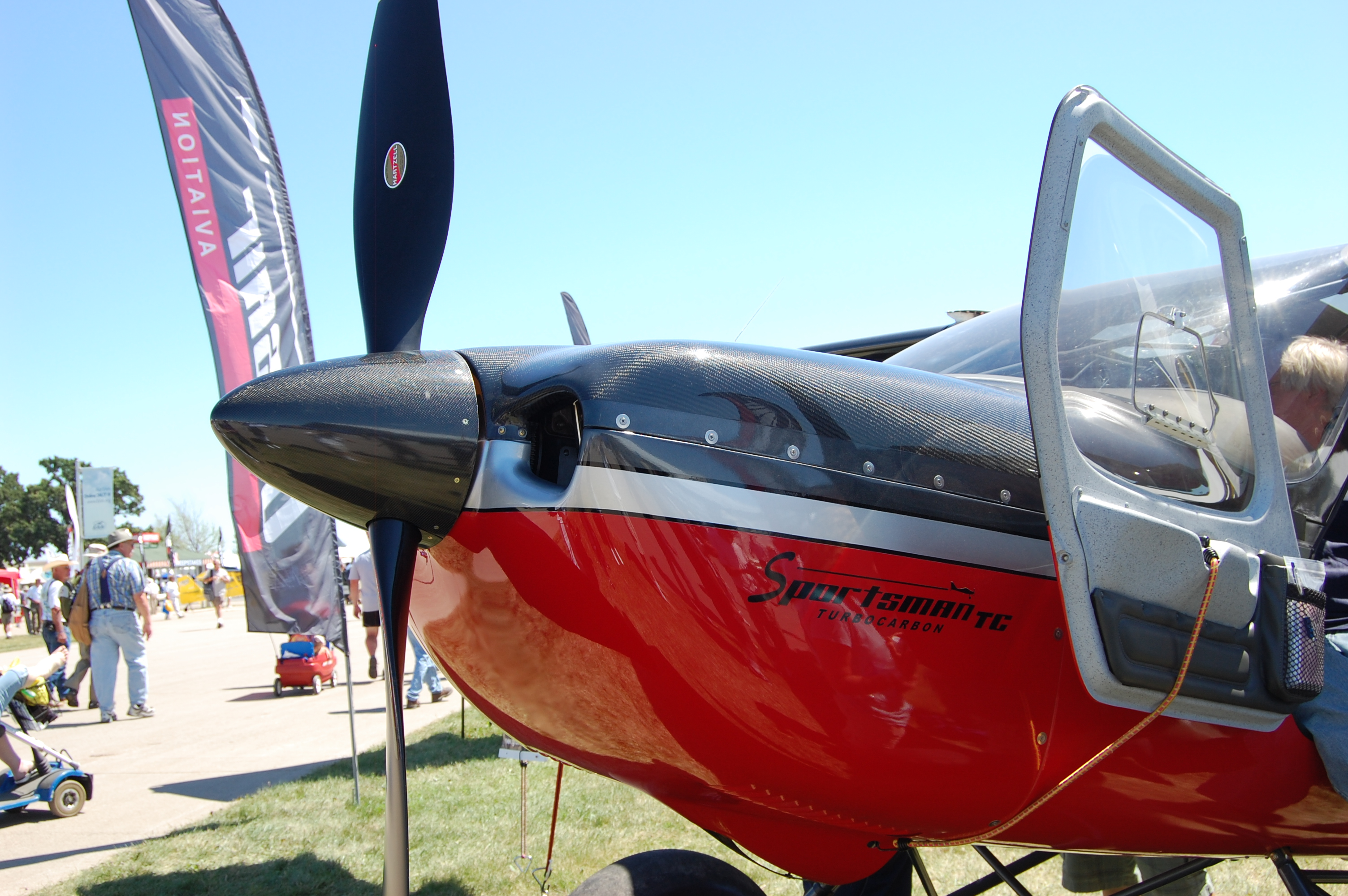 Sportsman TurboCarbon, EAA AirVenture